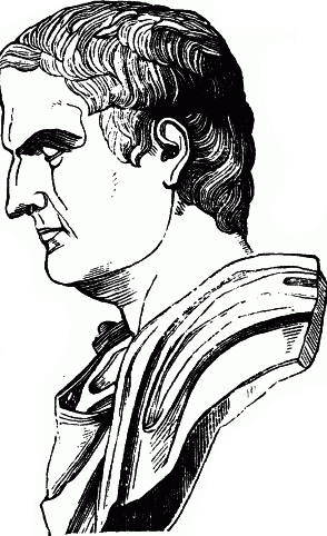 Bust of Mark Antony